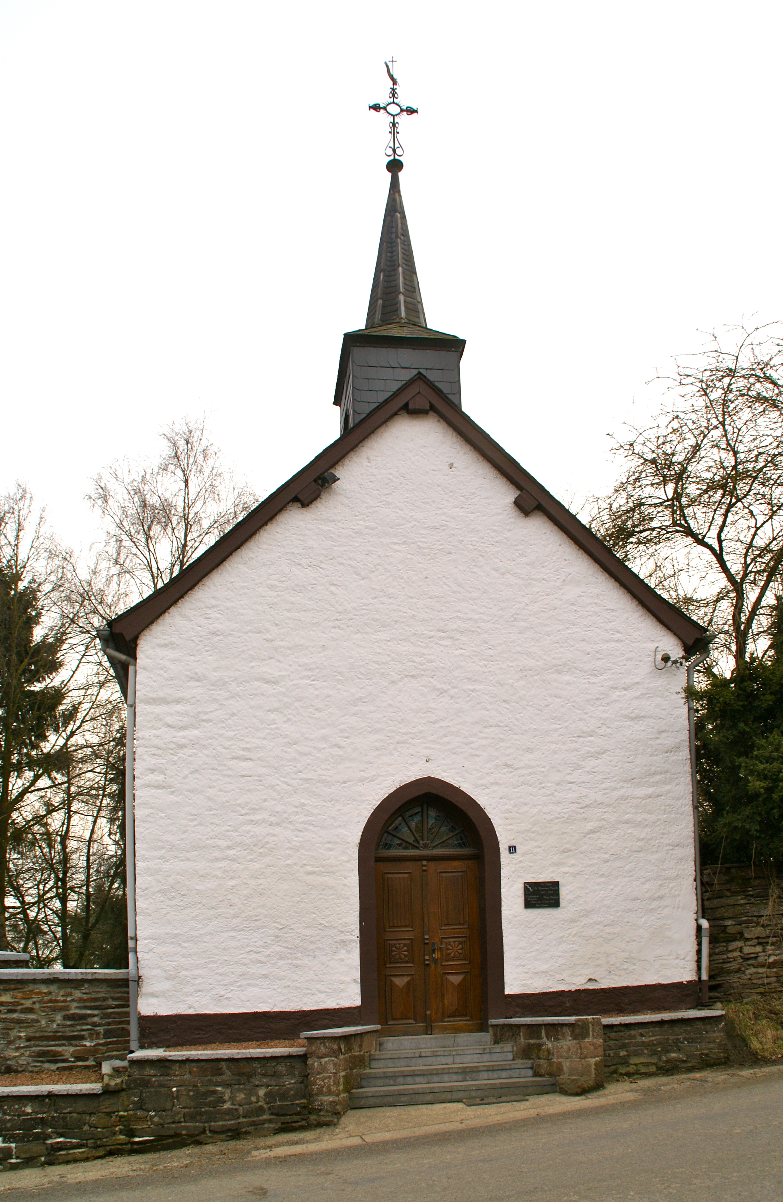 Alster (Burg-Reuland) (Belgium): Saint Quintin's Chapel